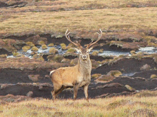 Red deer stag The rut takes place in October, and we could hear the stags roaring throughout the day. This stag had just chased off a rival, and for a minute seemed prepared to challenge us too.